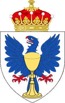 Arms of the Earls of Southesk from the Carnegie family